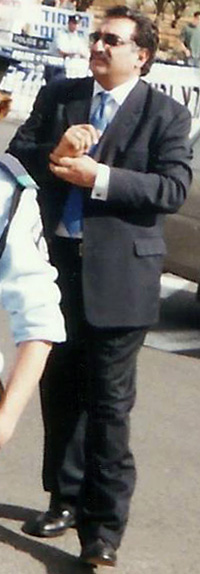 Bishara approaching a left’s demonstration held in front of the supreme court.